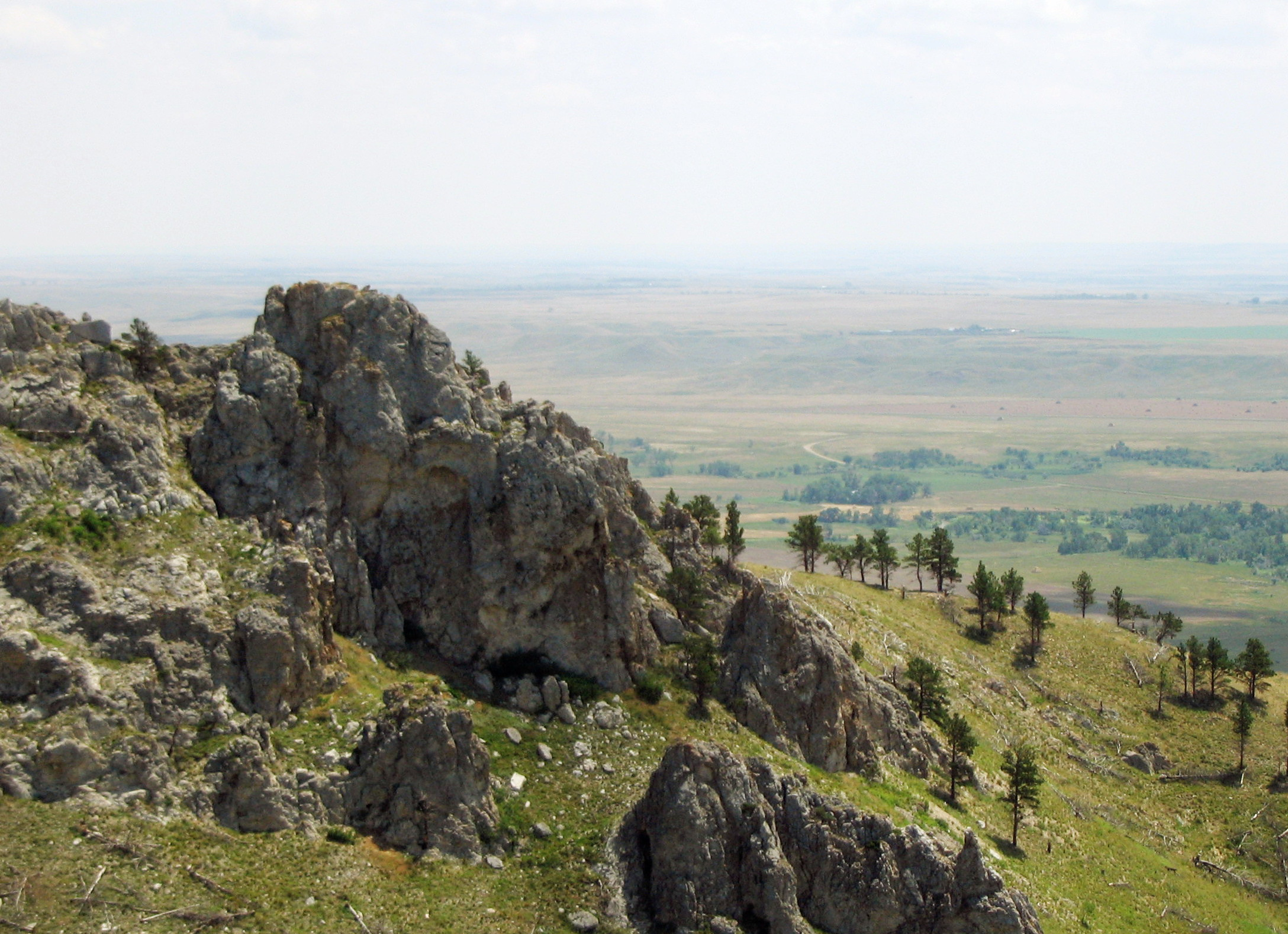 View from Bear Butte, South Dakota, U.S. The photo is taken about halfway from the trail head to the summit.